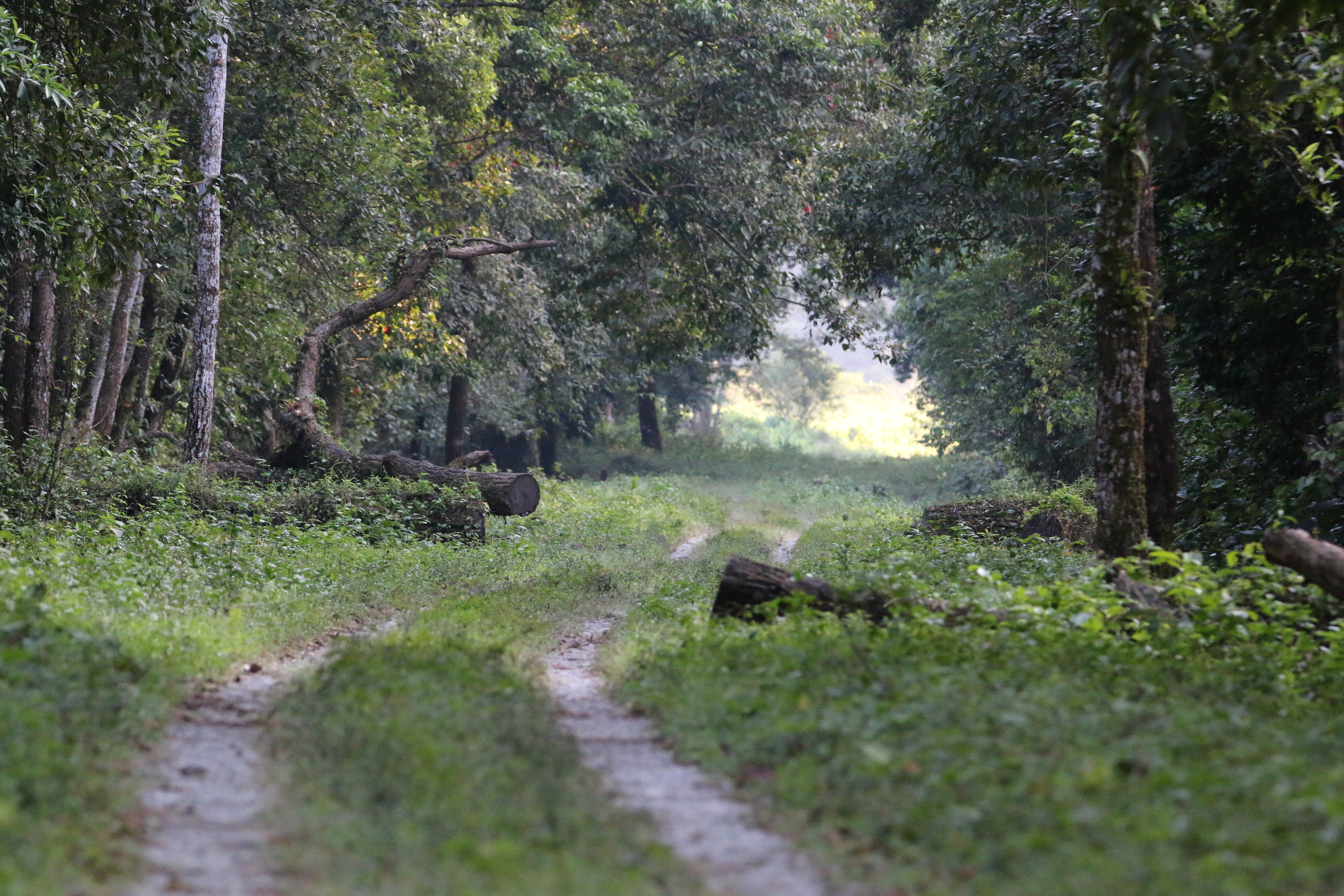 Road Way for tourist in Gorumara National Park, Jalpaiguri, India.